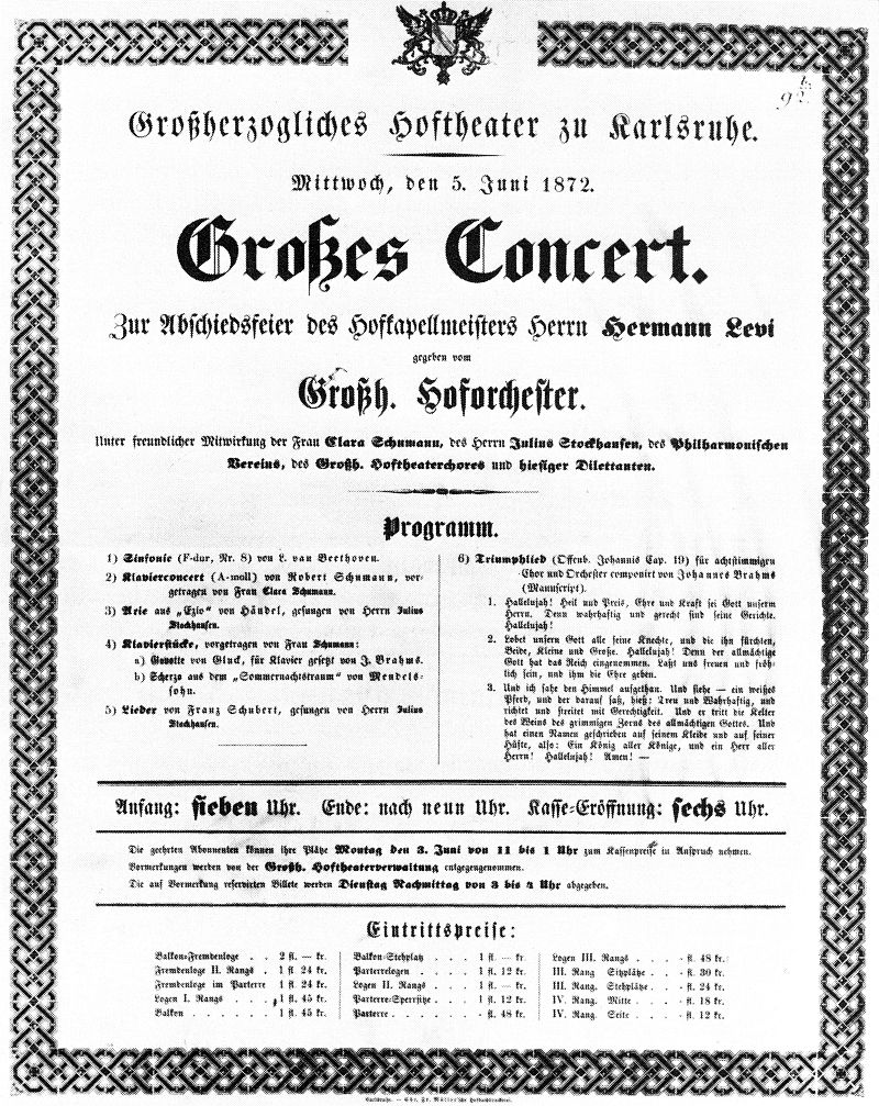 Concert programm on the occasion of the premiere of Triumphlied op. 55 by Johannes Brahms, 05-06-1872, Großherzogliches Hoftheater Karlsruhe, at the same time farewell concert of Hermann Levi